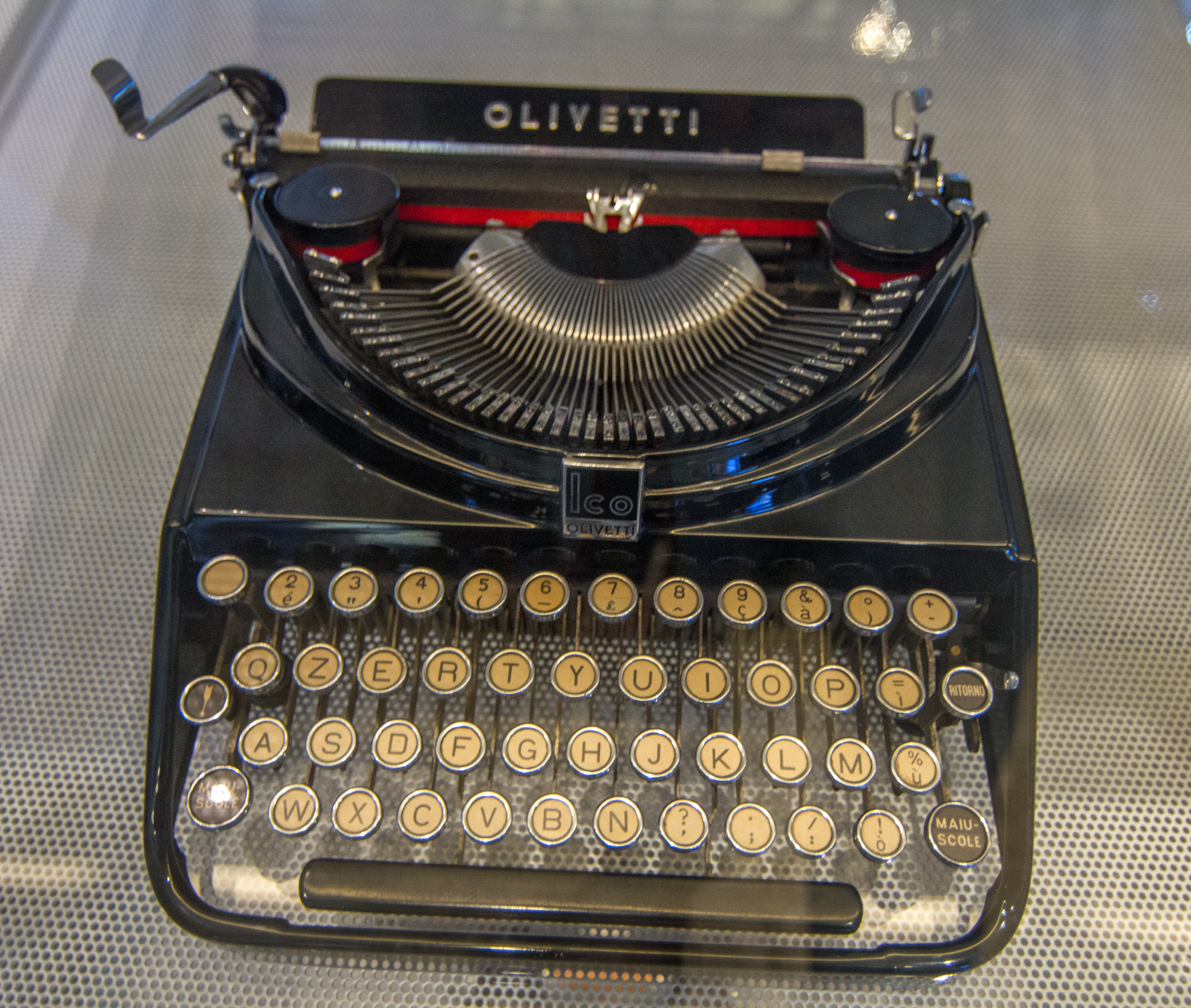 Olivetti typewriter